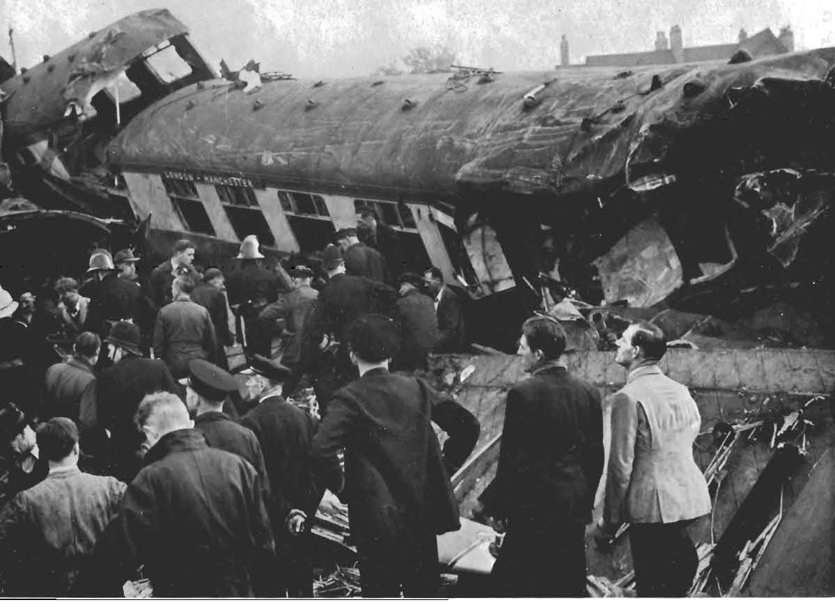 Rescue workers around wrecked coaches after the Harrow and Wealdstone train crash on 8 October 1952